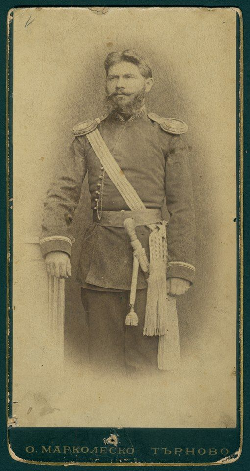 Colonel Dimitar Marinov (1860 - 1946) circa 1886